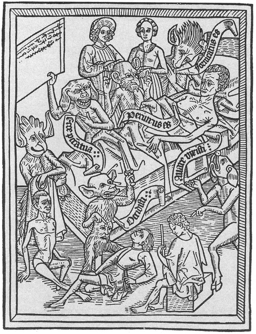 Demons showing a dying man his sins on a medieval engraving.